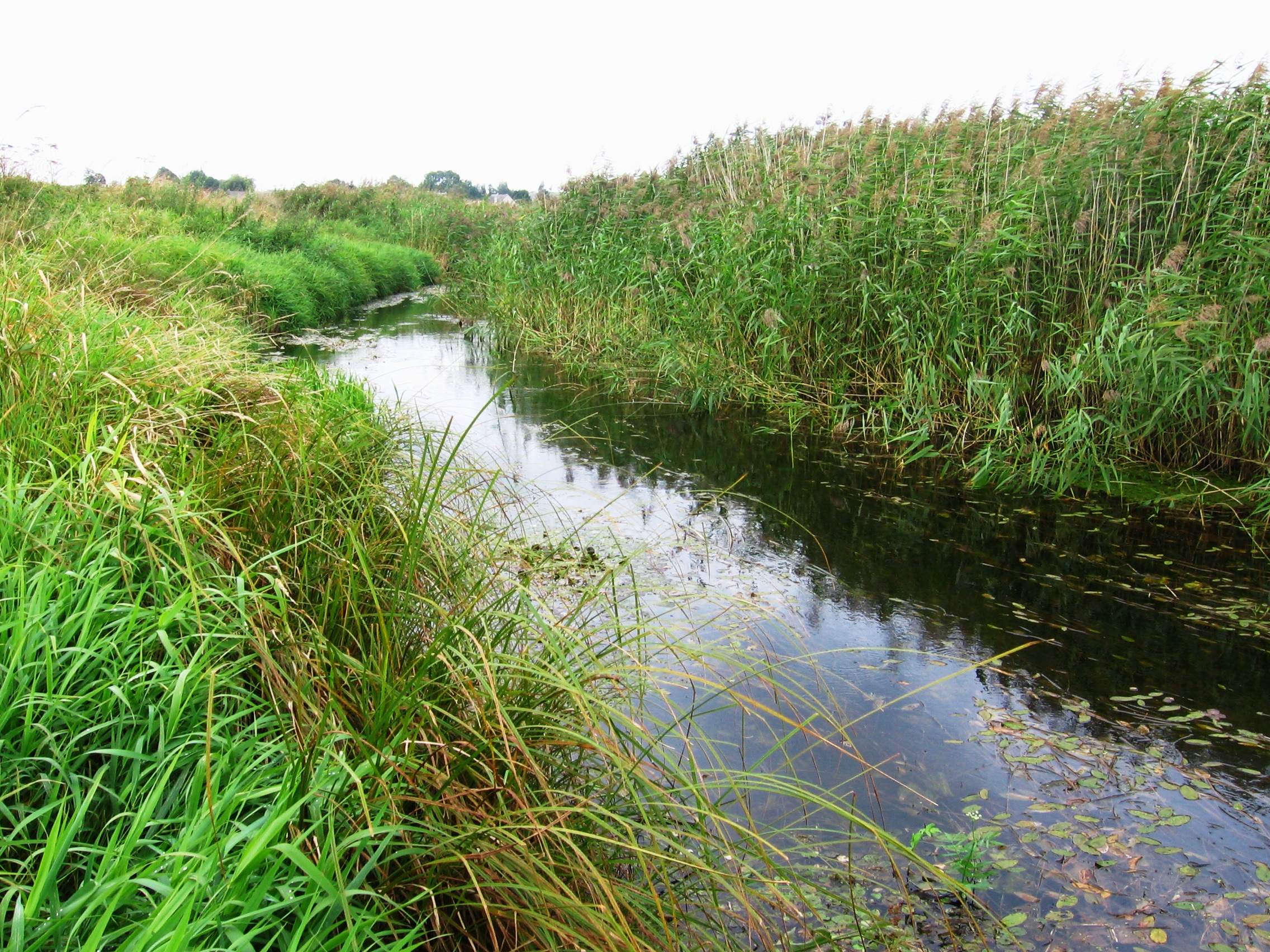 Dovine river, Marijampole district, Lithuania